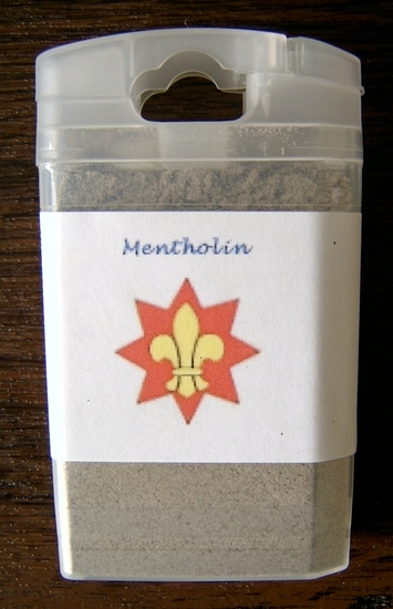 A non tobacco snuff made by Molens de Kralingse